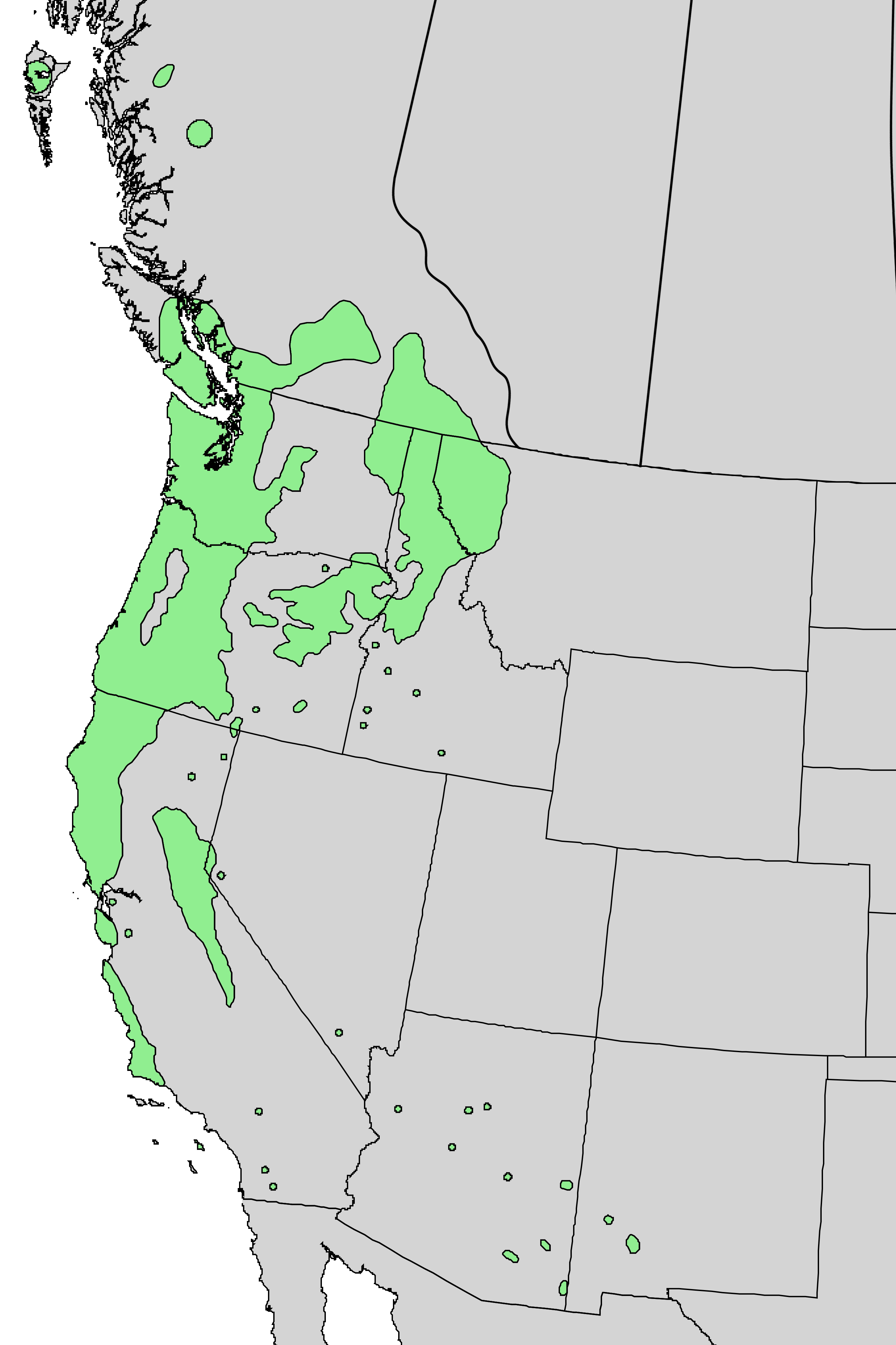 Natural distribution map for Prunus emarginata (bitter cherry)